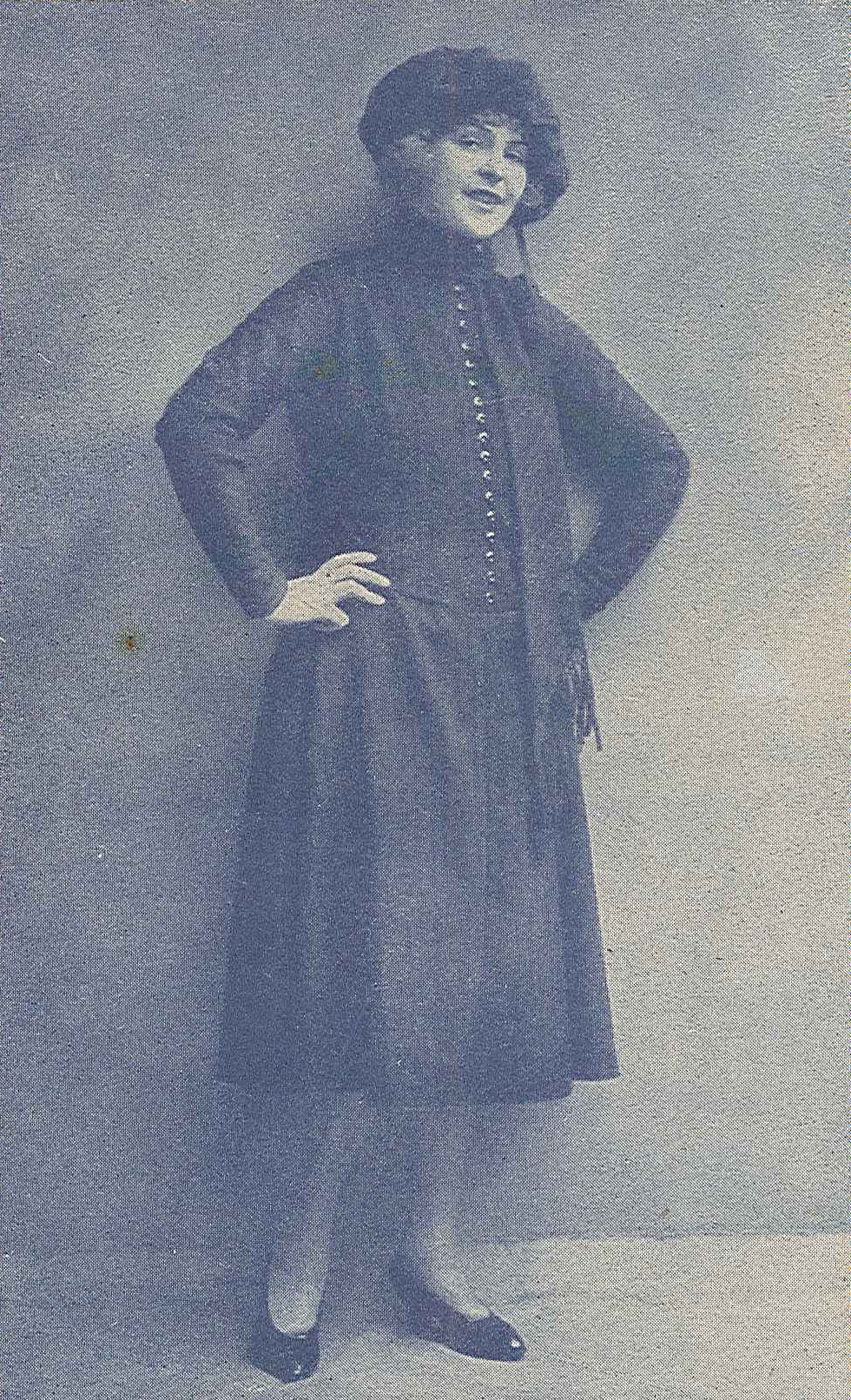 Edith Wallén (1891-1960), Swedish actress and revue star. Photo from 1923 sheet music cover.